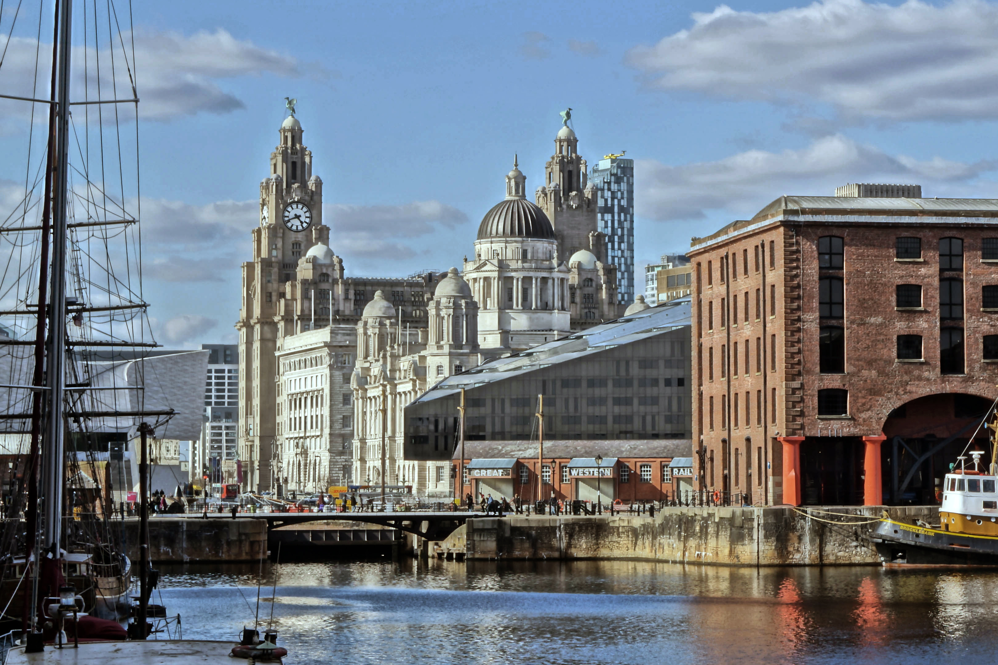 The Liverpool waterfront basks in spring sunshine over the weekend.